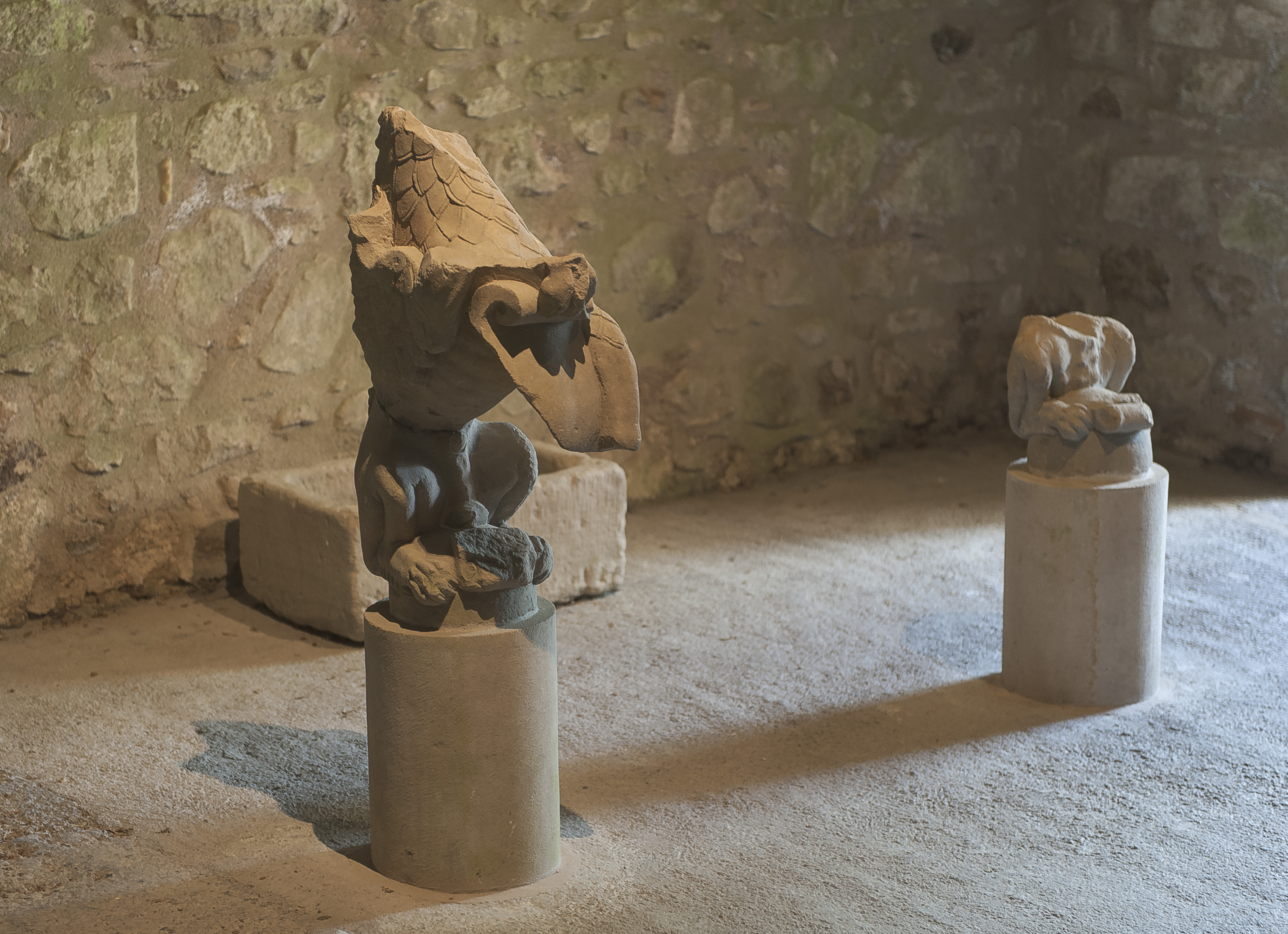 Huntly Castle, Scotland. Finials